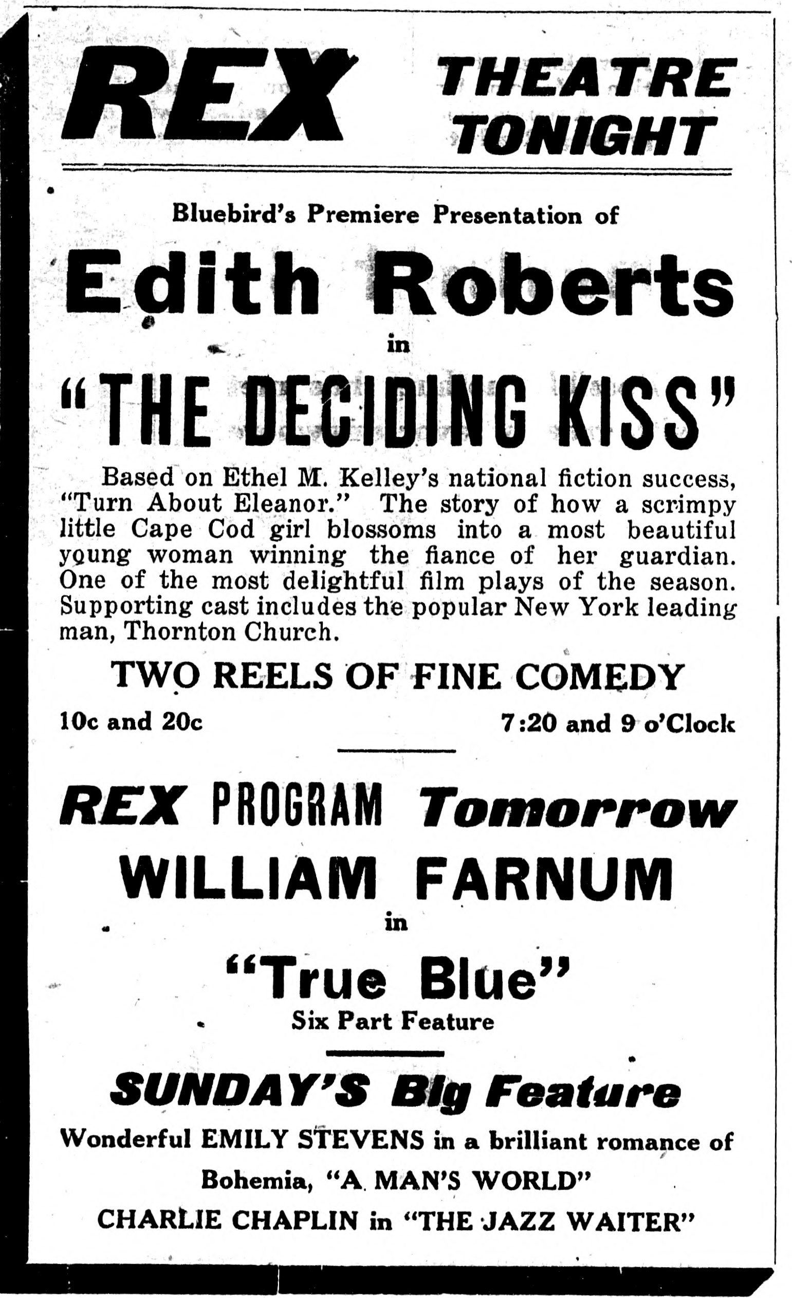 The Deciding Kiss is a 1918 American comedy film directed by Tod Browning. This is a newspaper advert for the film.